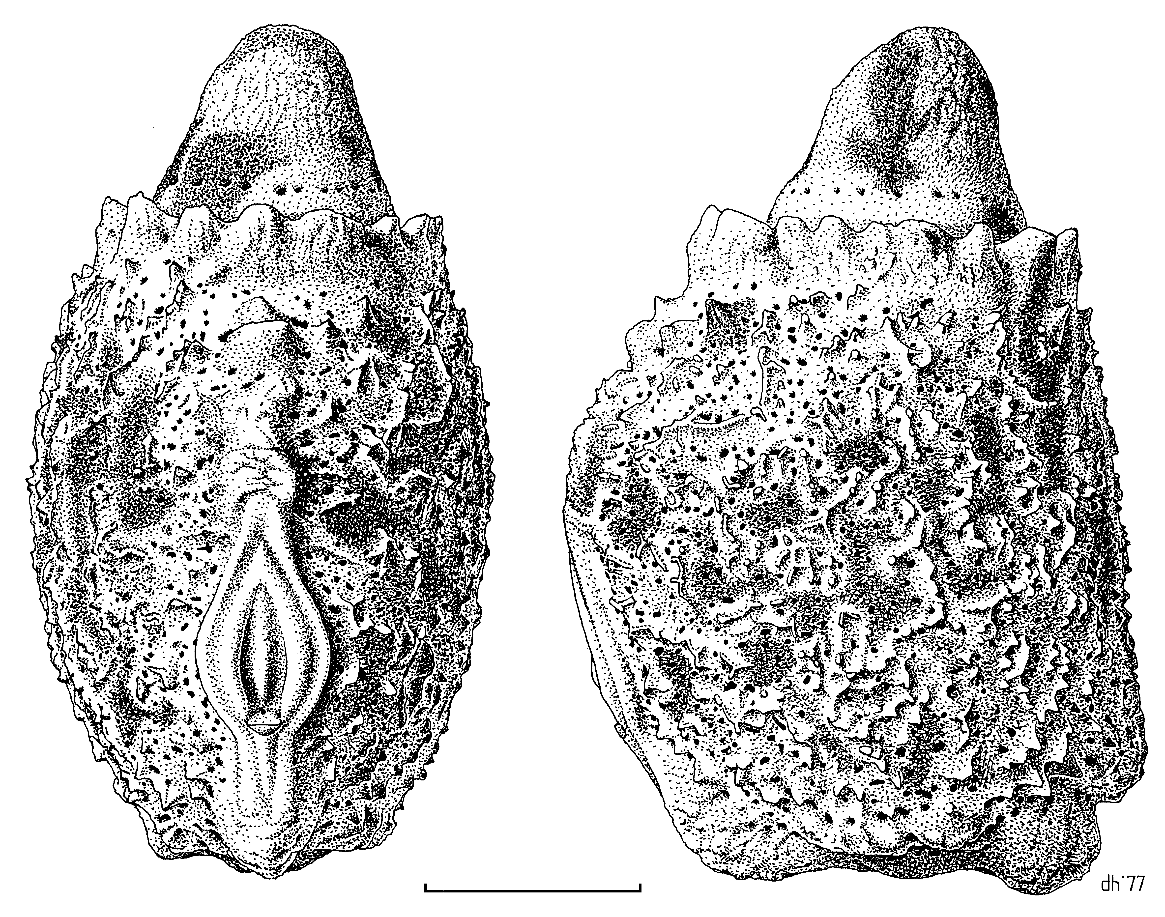 (Phasmatodea: Phasmidae) Pseudoclitarchus senta egg illustrated by Des Helmore.